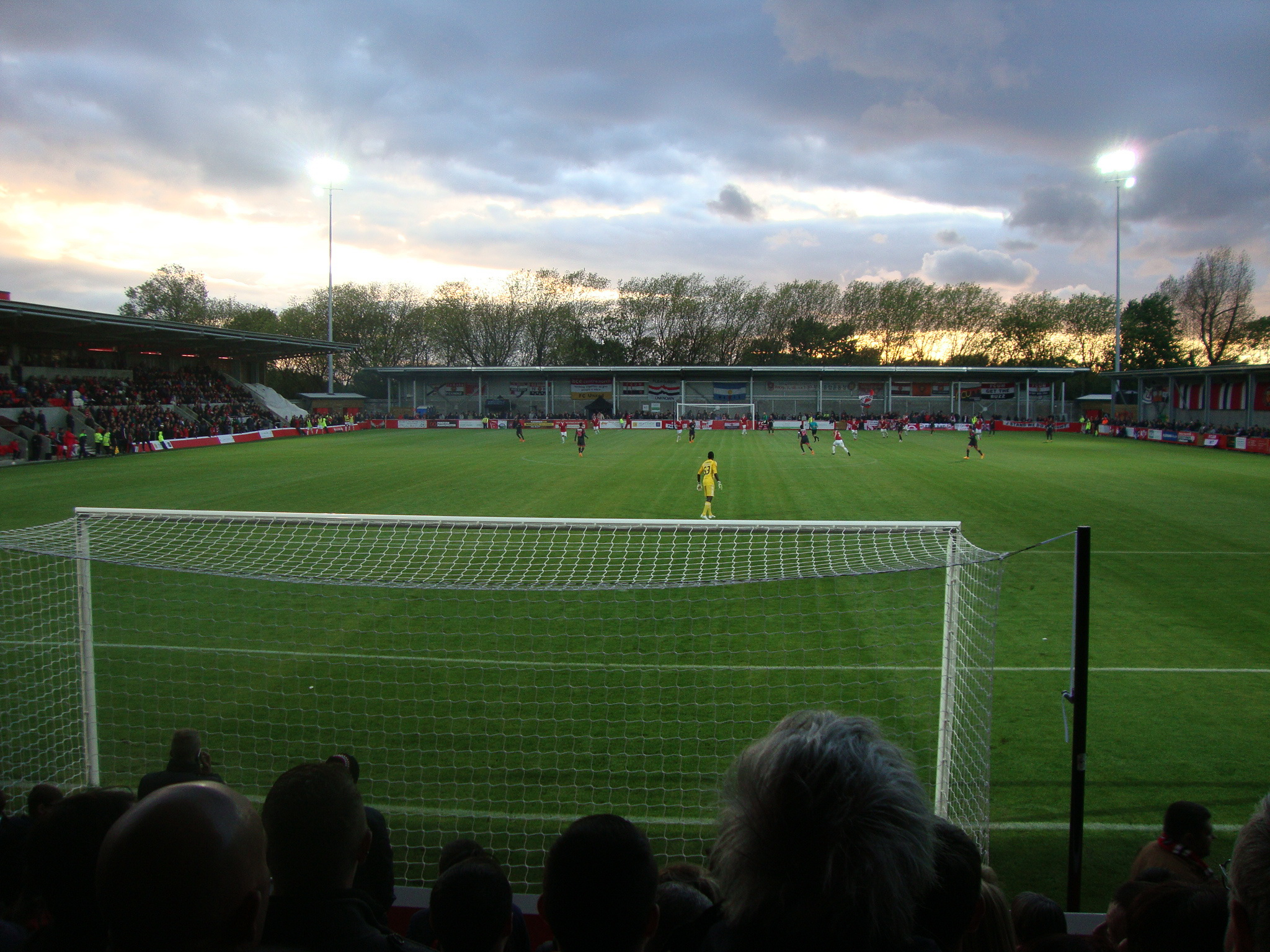 View from SMRE